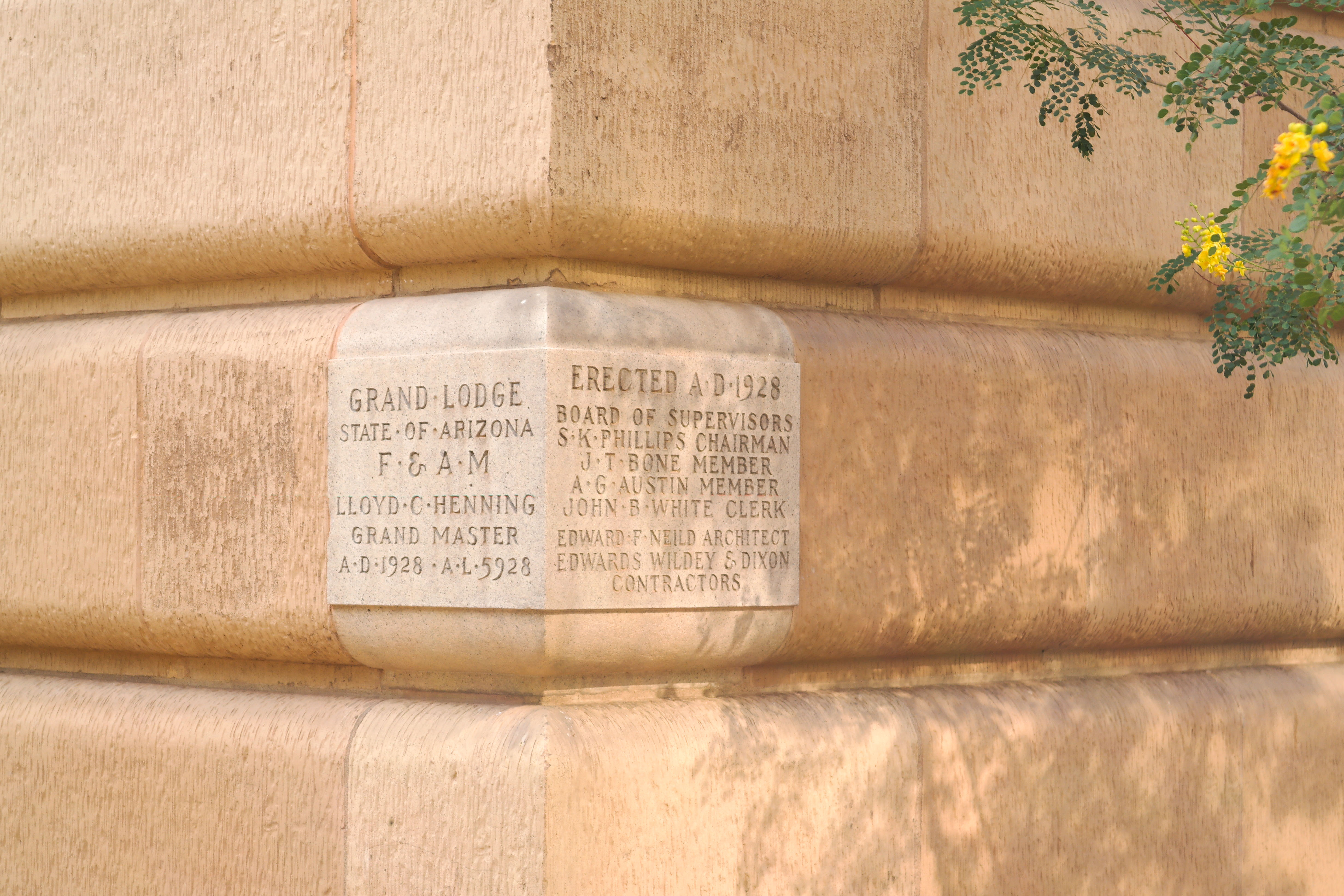 Maricopa County Courthouse Cornerstone in Phoenix, Arizona